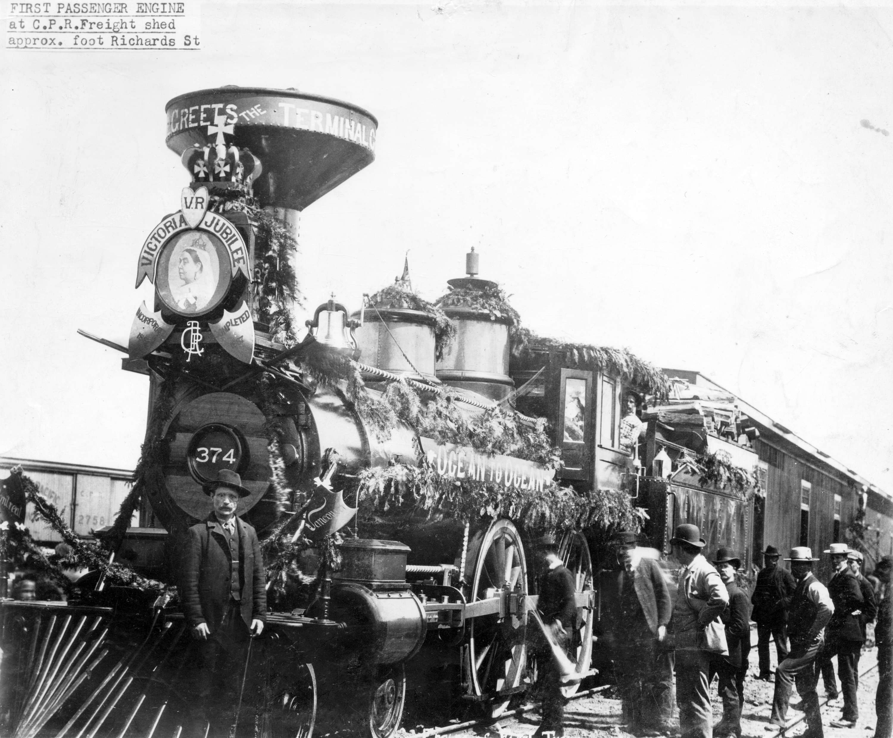 Engine 374 of the first Canadian Pacific Railway passenger train to arrive in Vancouver - May 23, 1887.